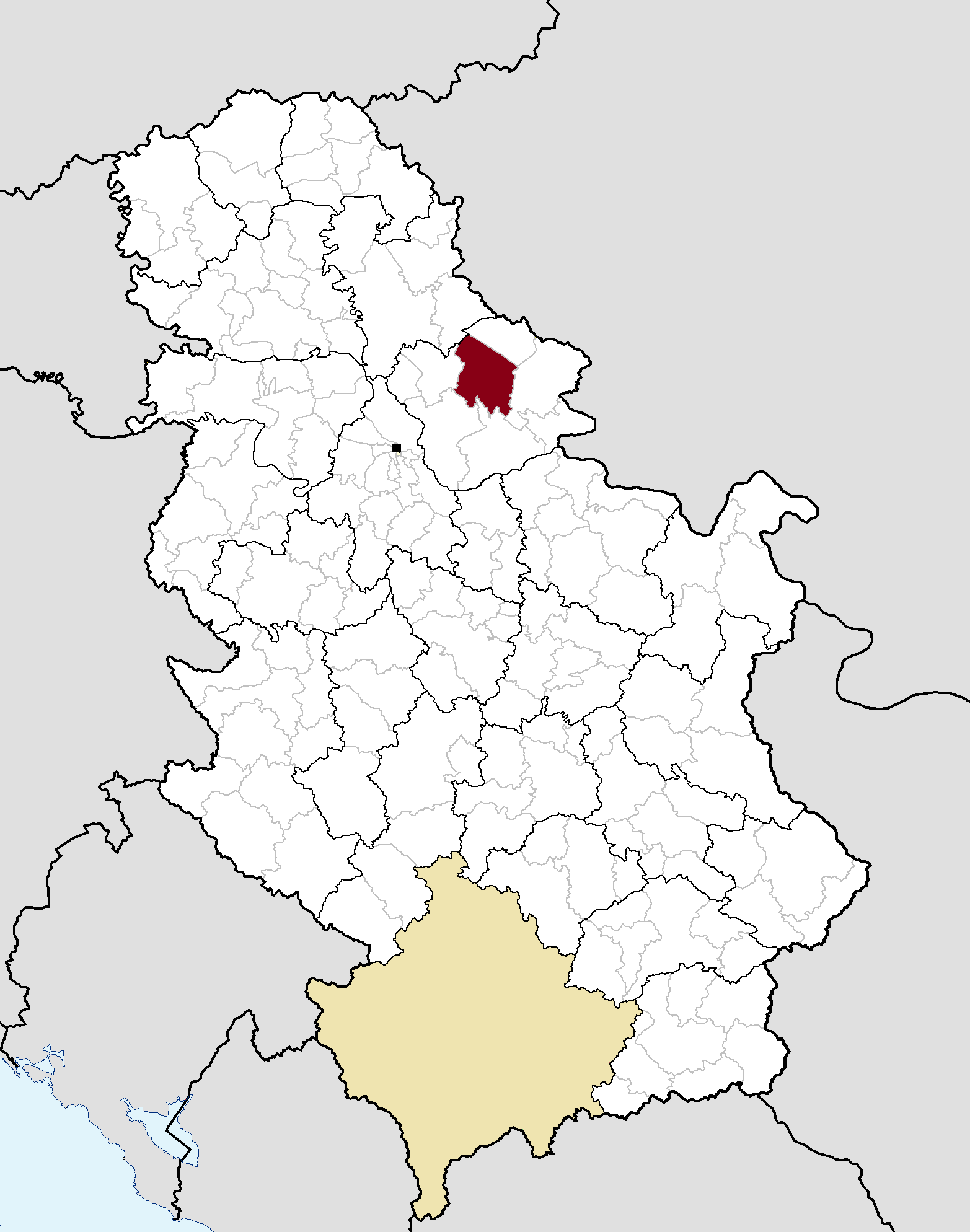 Municipal location in Serbia